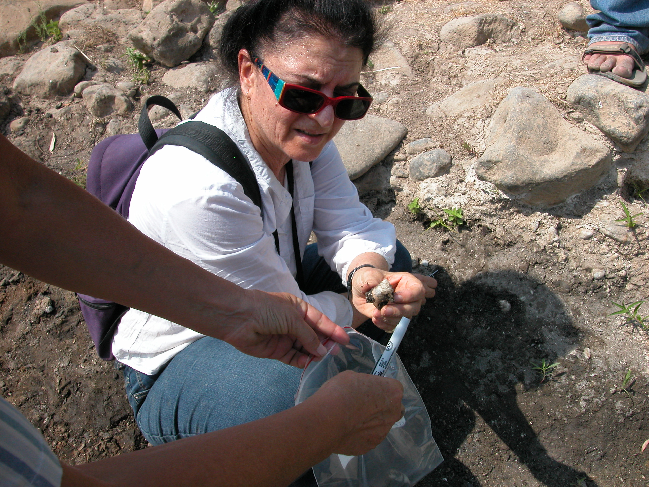 Naama Goren-Inbar collecting samples at Gesher Benot Ya'aqov